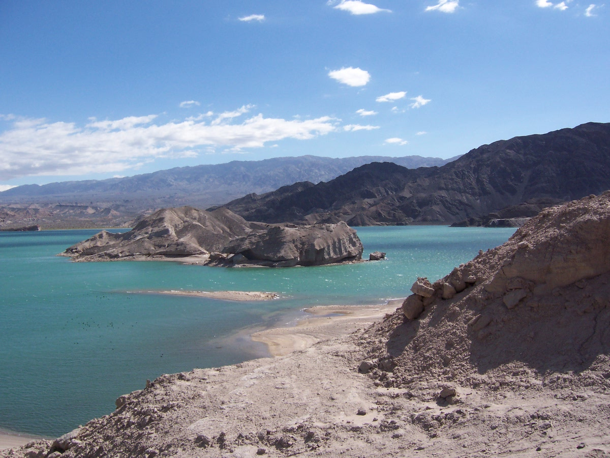 Cuesta del Viento Dam, Iglesia department , San Juan Province, Argentina